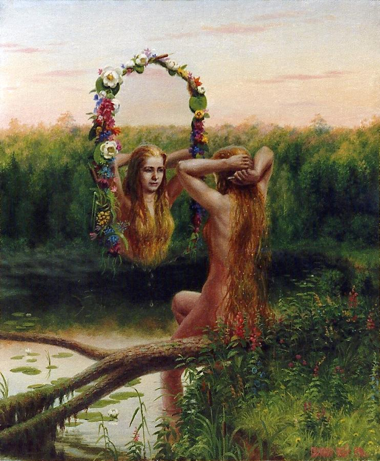 "Rusalka"